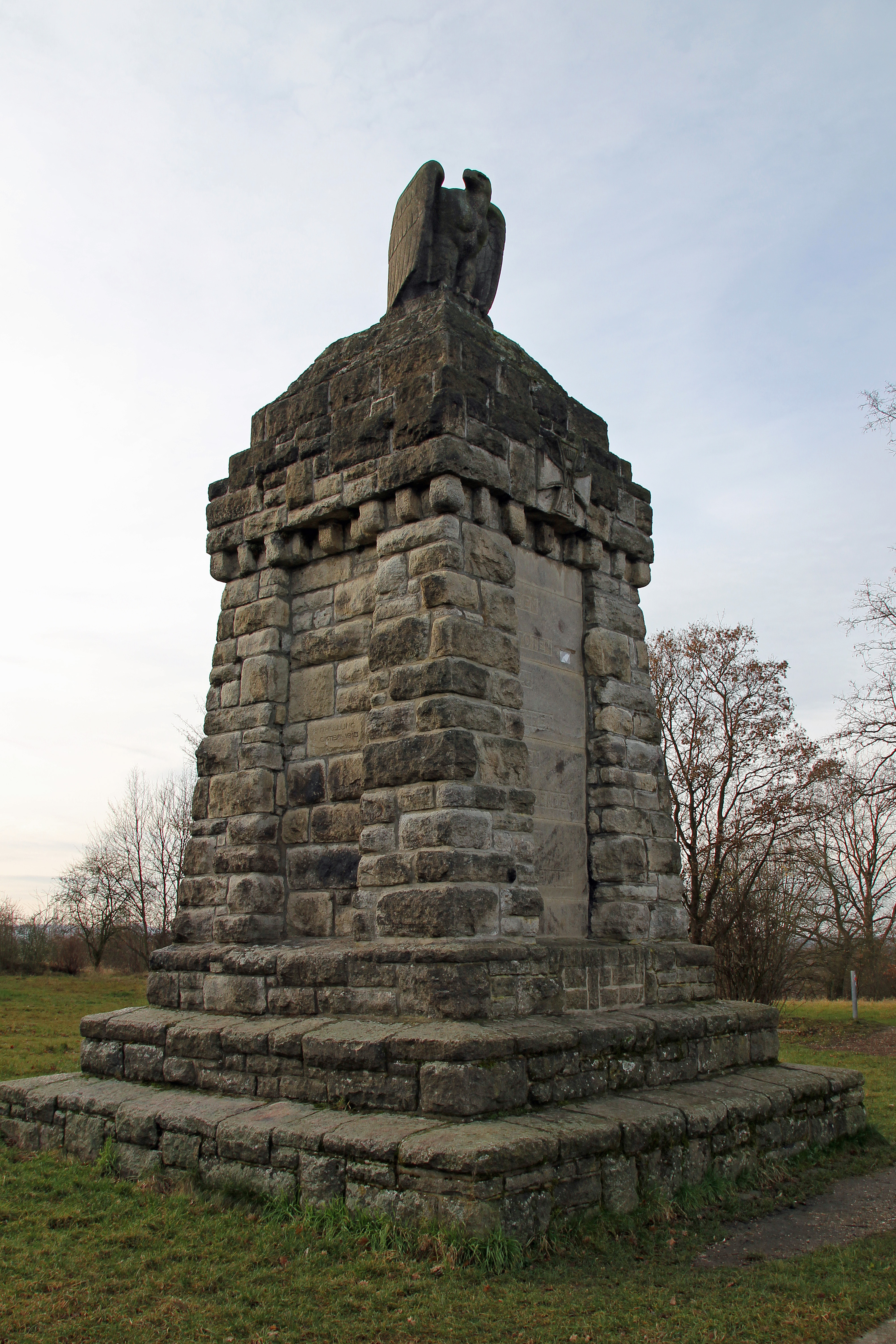 Metternicher Eule in Koblenz